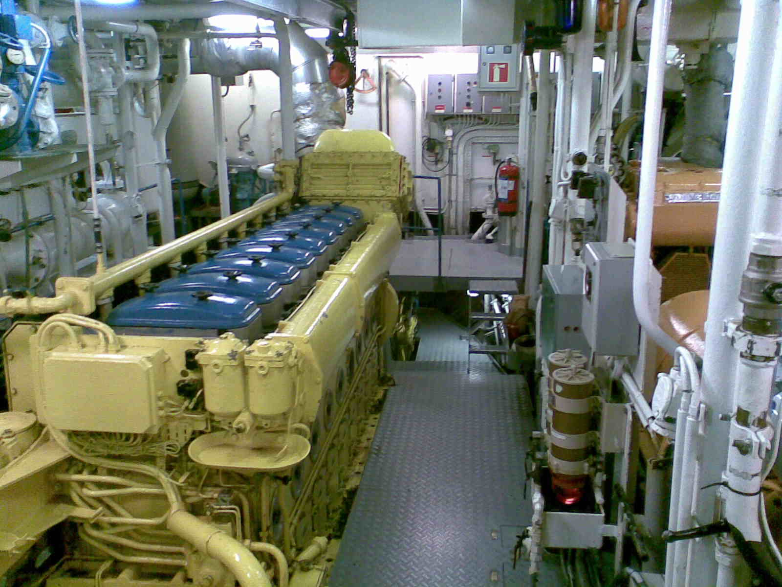 The Engine Room of the School Ship Michael Sars showing a Bergen 9-cyl Inline Diesel Engine.